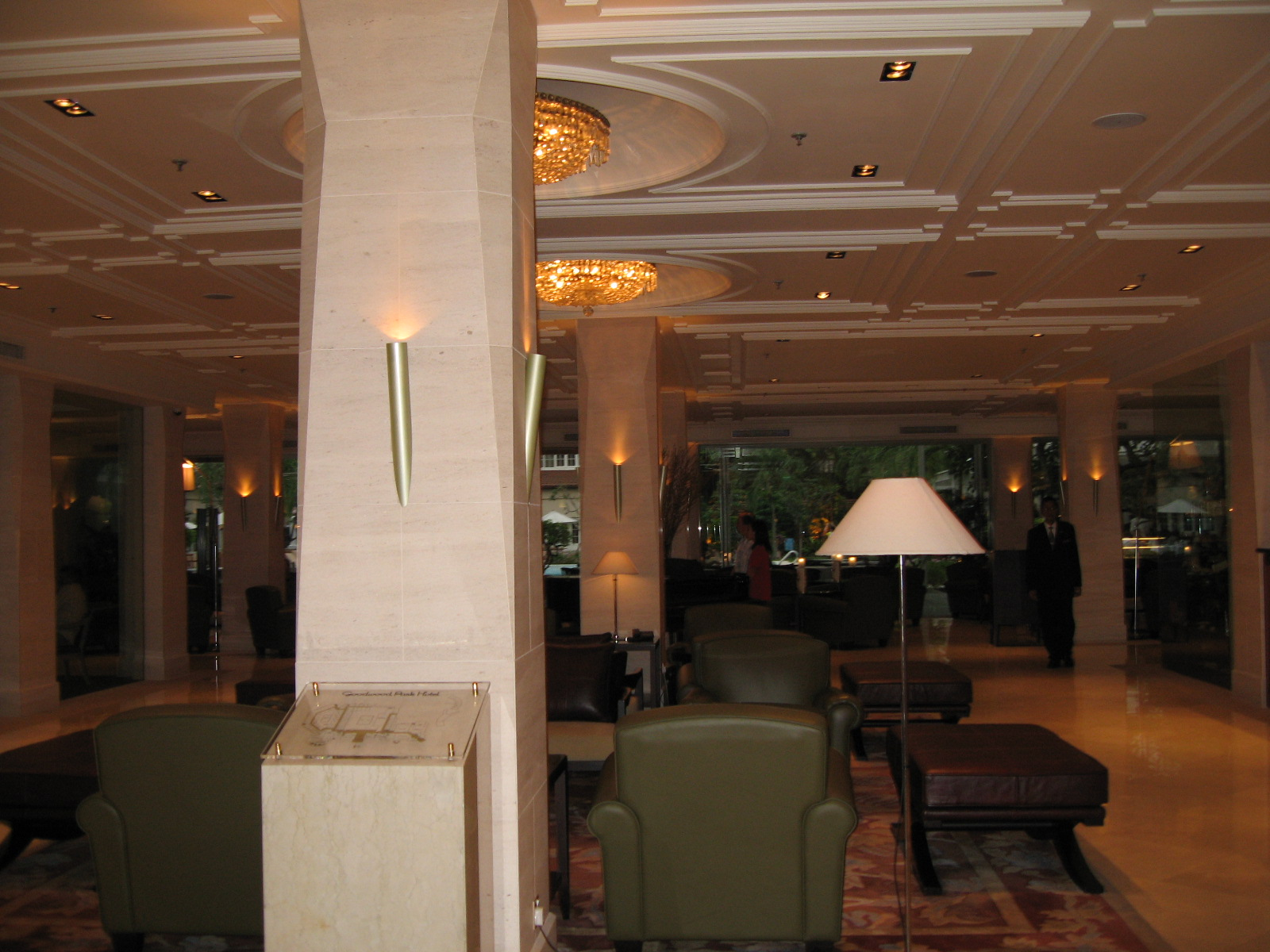 Goodwood Park Hotel.